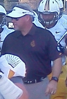 Derived from file:Coach Dave Christensen and Wyoming players enter SJSU homecoming 2013.jpg